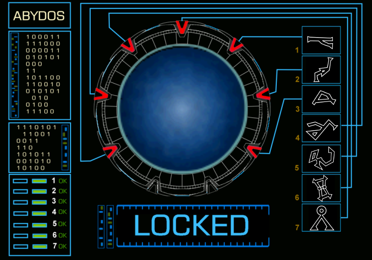 Tau'ri dialing computer's screen with the Abydos address in Stargate, as seen in Stargate SG-1.